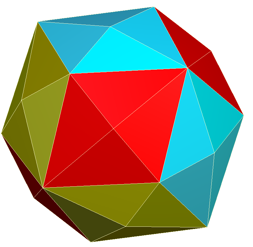 Disdyakis dodecahedron colored for First stellation of rhombic dodecahedron